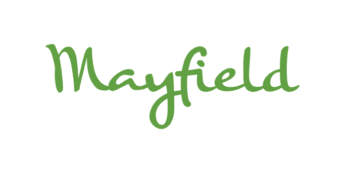 Current Logo